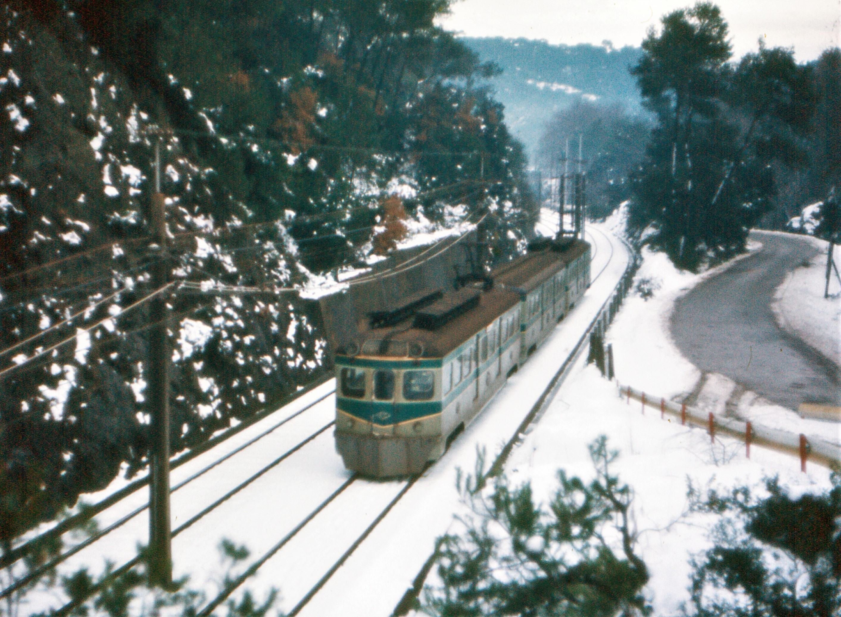 A train of the 400 series of Ferrocarriles de Cataluña S.A. between Les Planes and Baixador de Vallvidrera, during a snowfall, equipped with snowblowers.